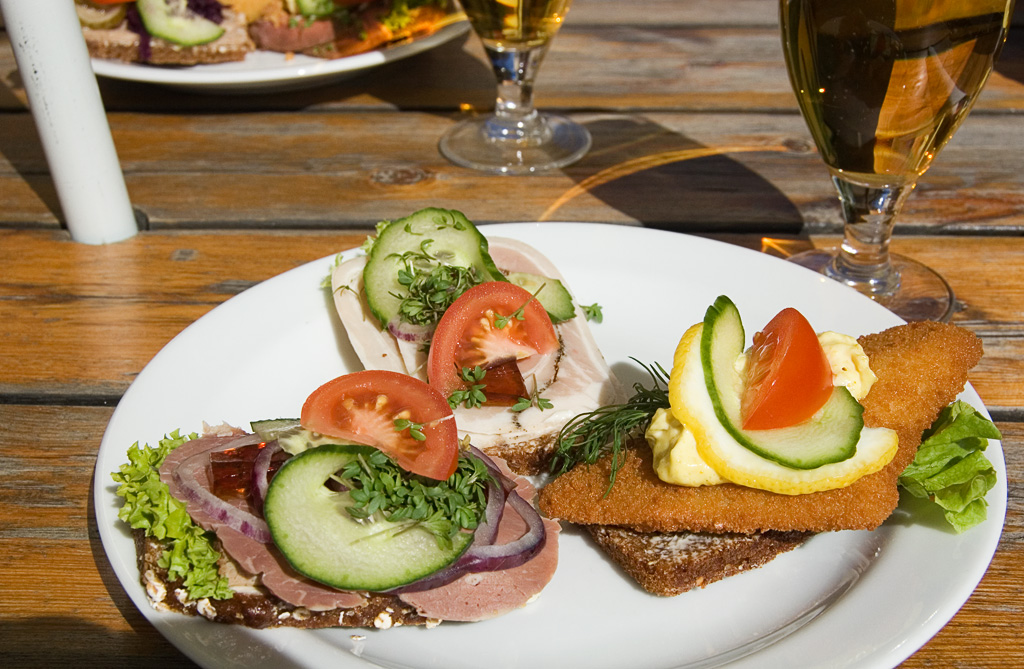 A selection of Danish smørrebrød.